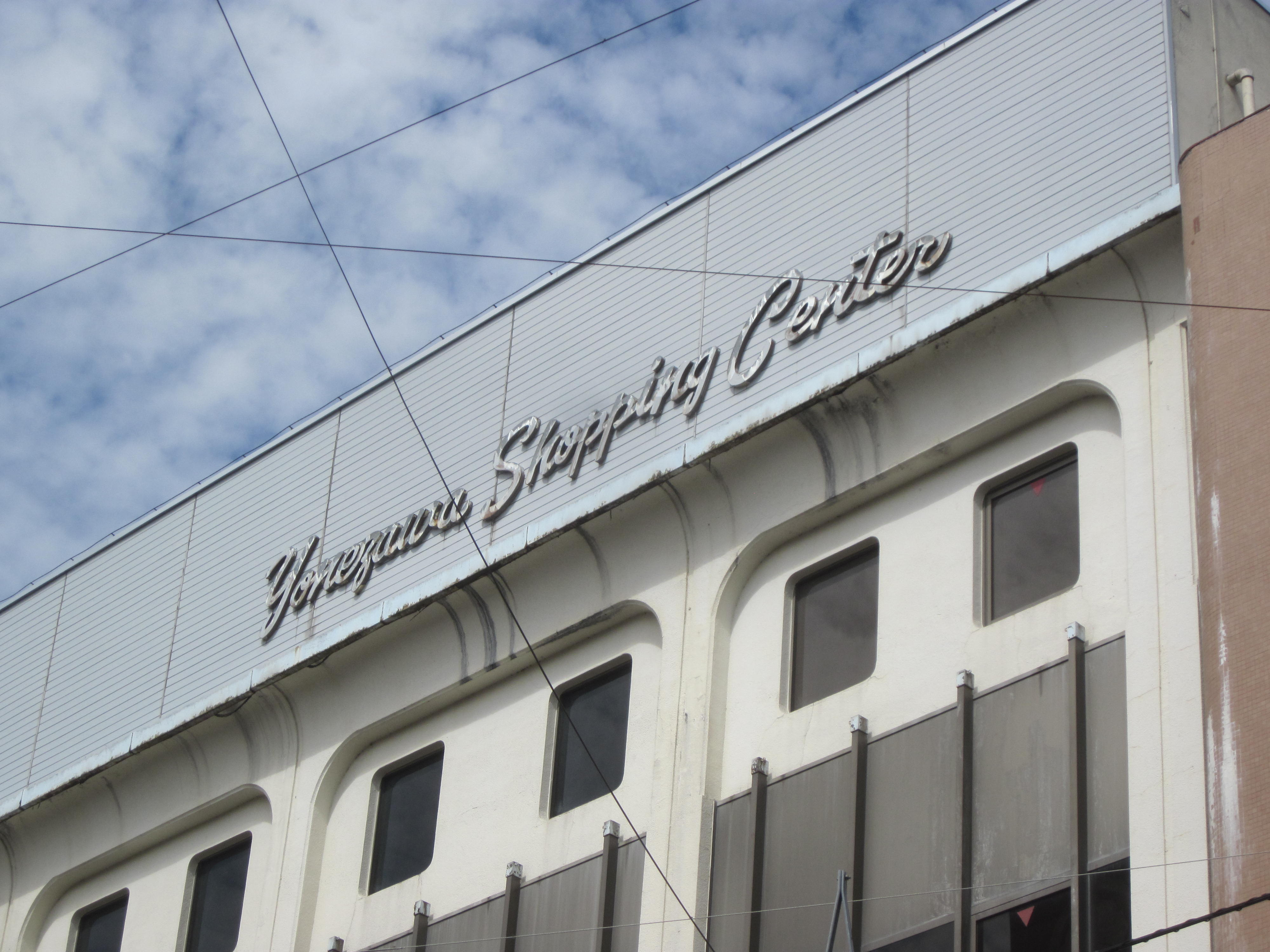 Yonezawa shopping center ( Popolo Yonezawa ) Yonezawa, Yamagata Prefecture center 1-9-20